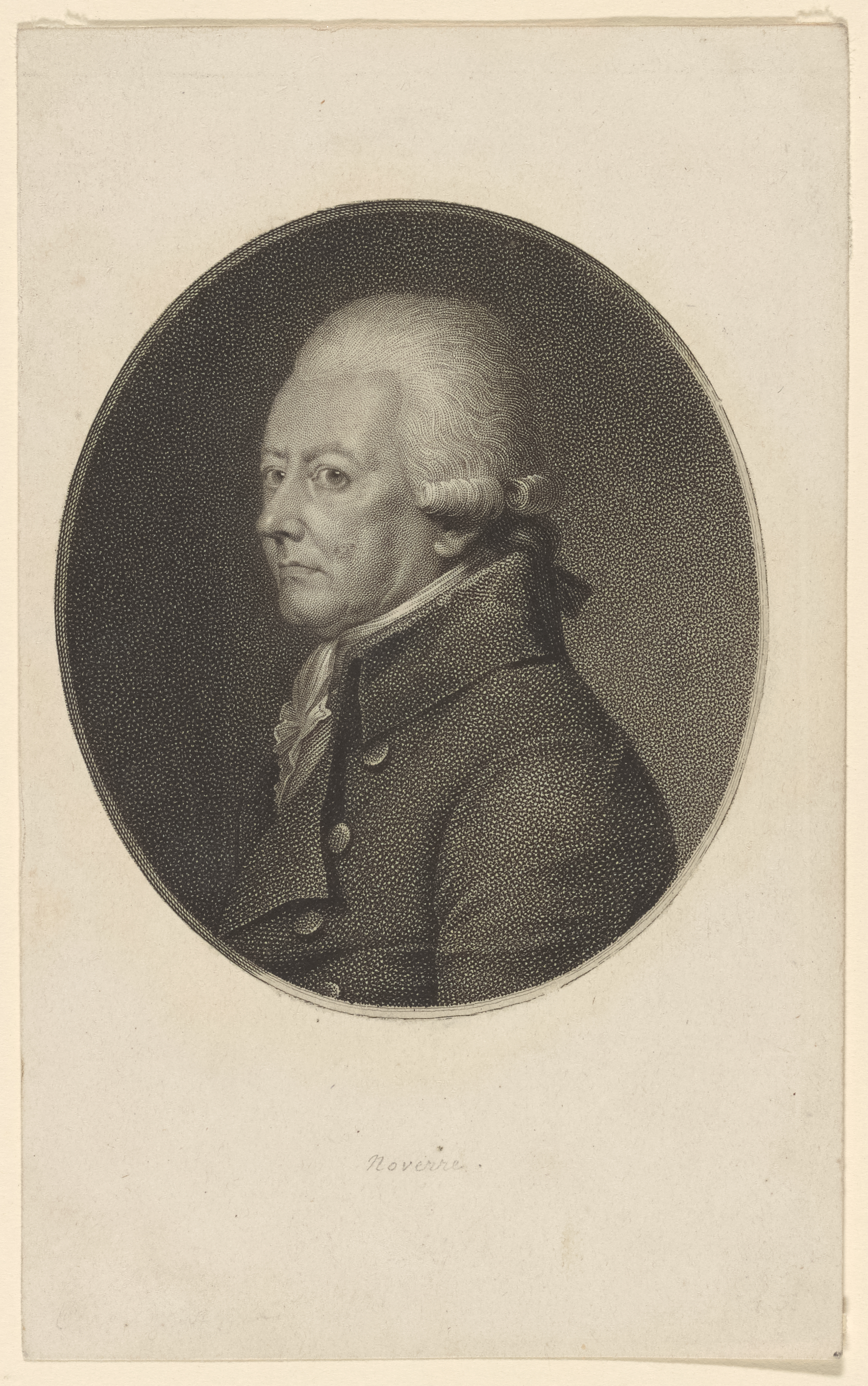 Cropped and mounted on sheet. Bust portrait to left. Version of *MGZFB-18 Nov J P 3.